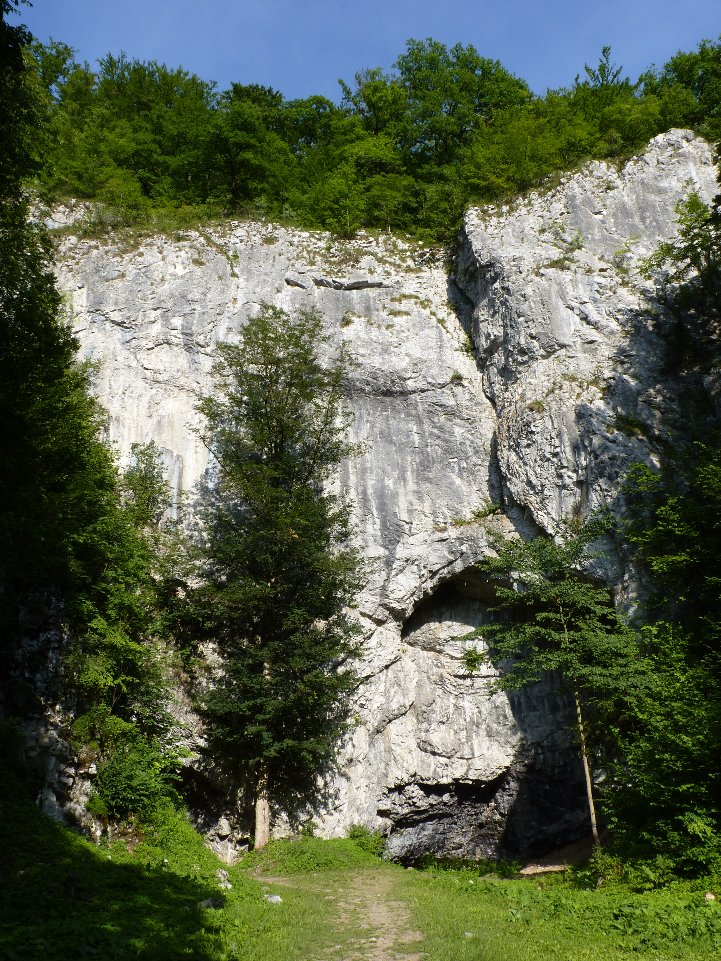 Moravian Karst, South Moravian Region, Czech Republic